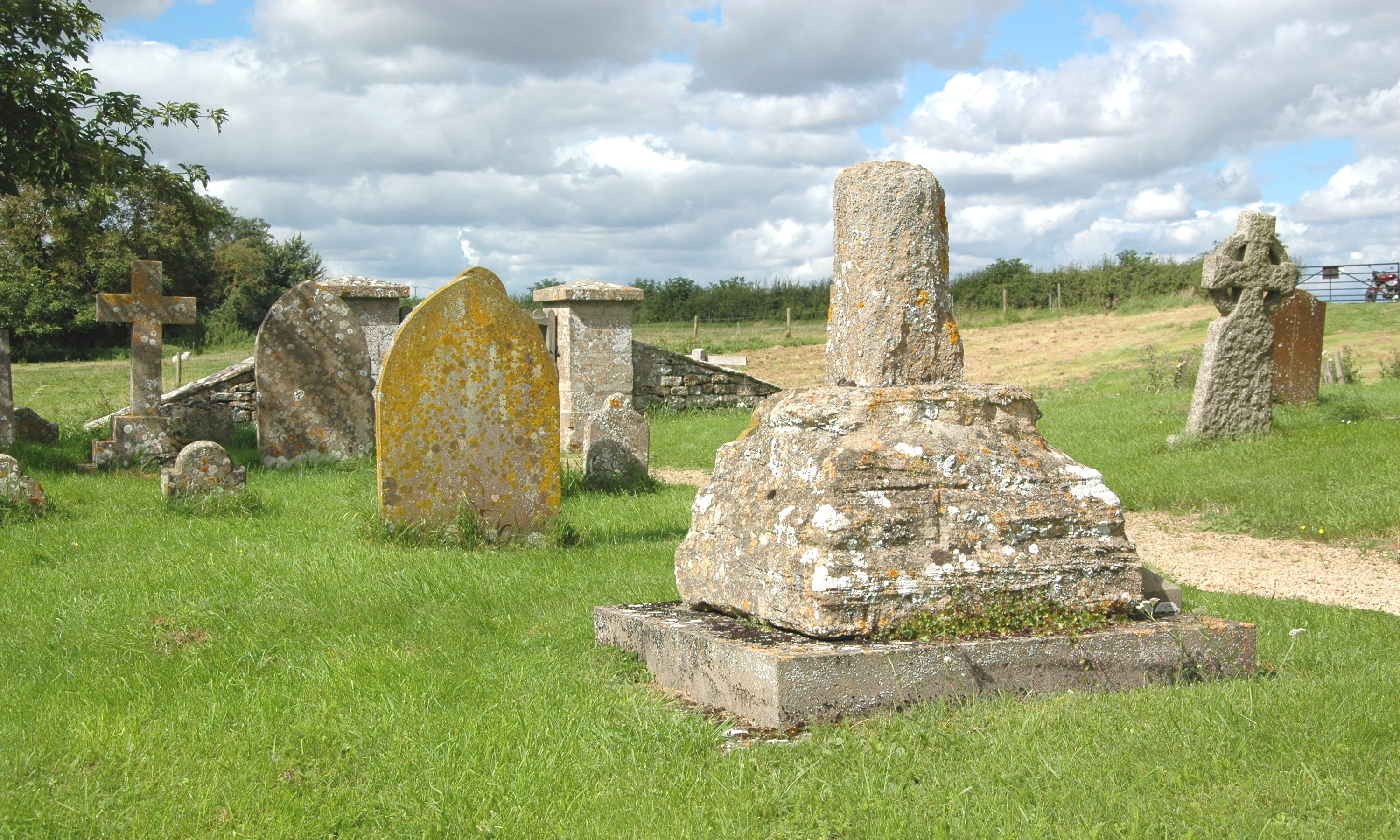 Base and broken shaft of 15th-century stone cross in the chapel yard of St Mary, Shifford, Oxfordshire